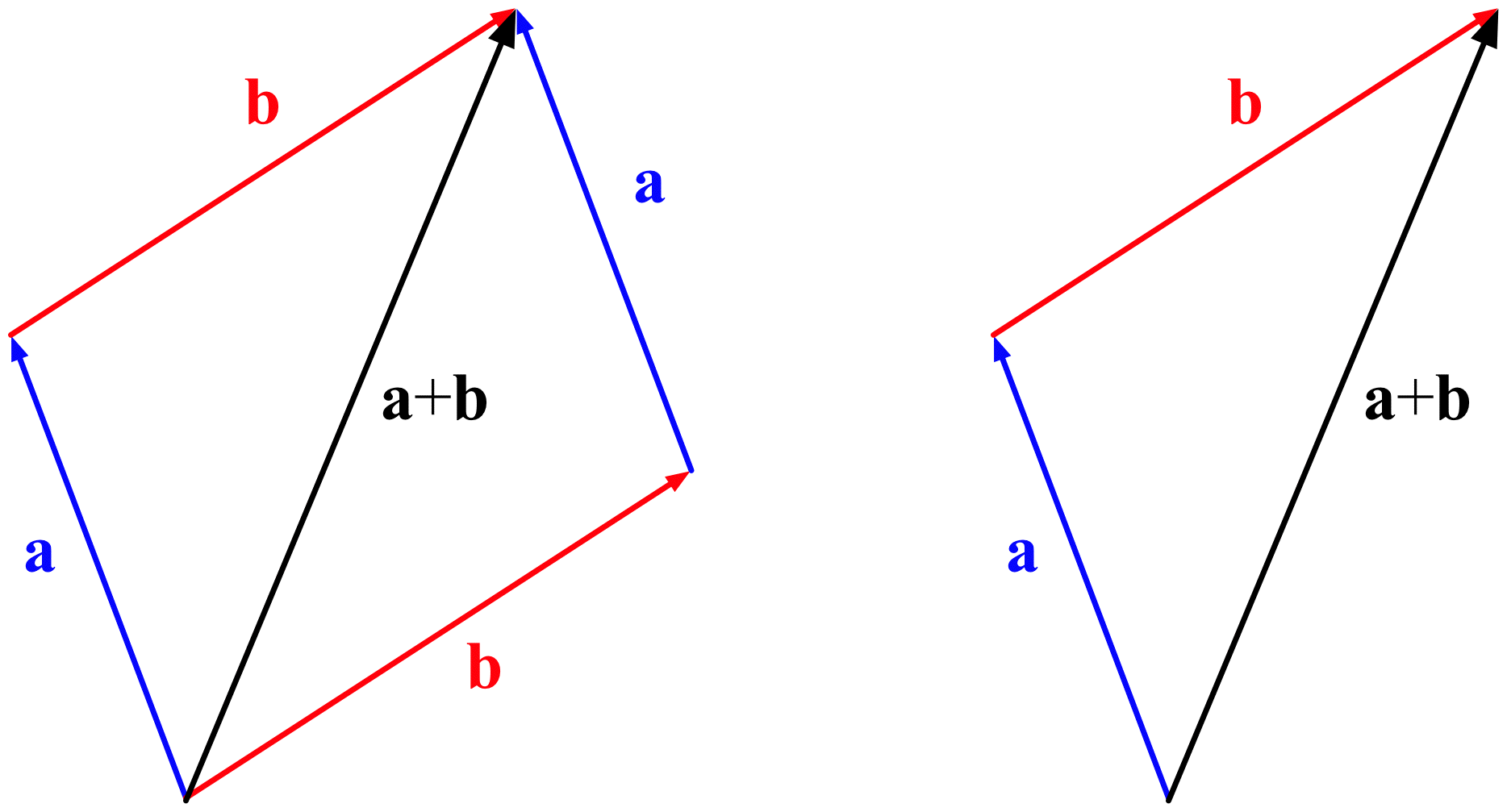 Illustration of two very slightly different methods of adding vectors a and b.